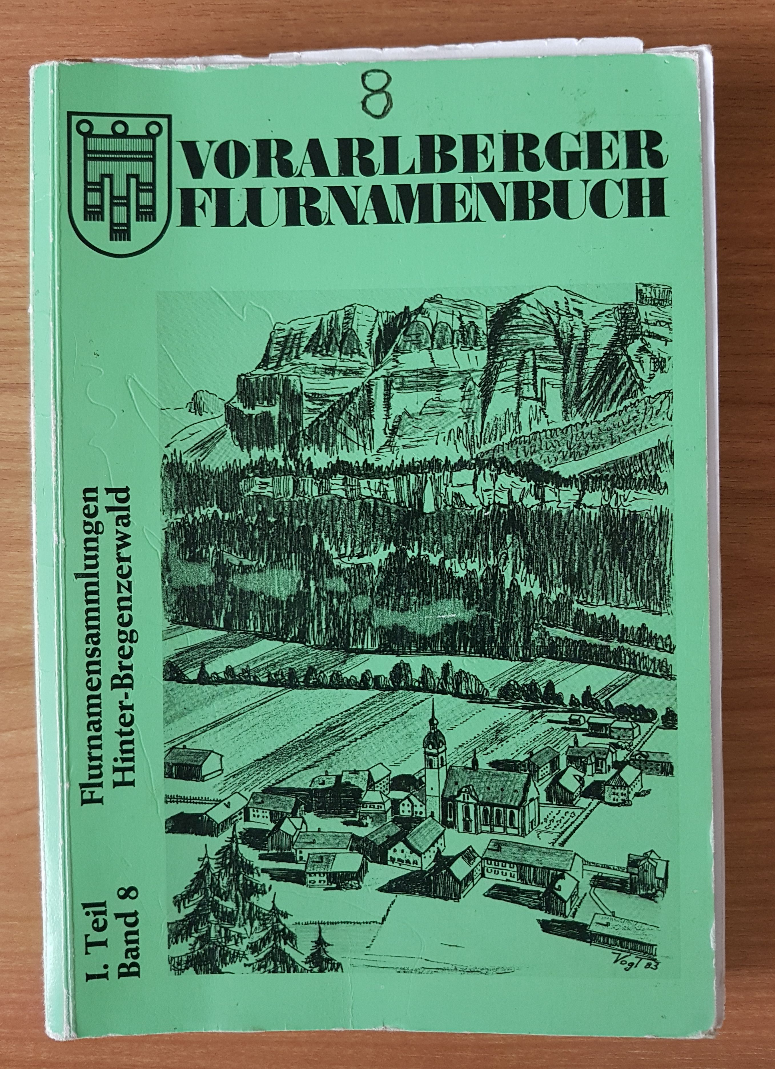 Book cover of the "Vorarlberger Flurnamenbuches" (Book of names of Vorarlberg of meadows, fields or small areas), volume 8, by Werner Vogt. Personal book from Werner Vogt.